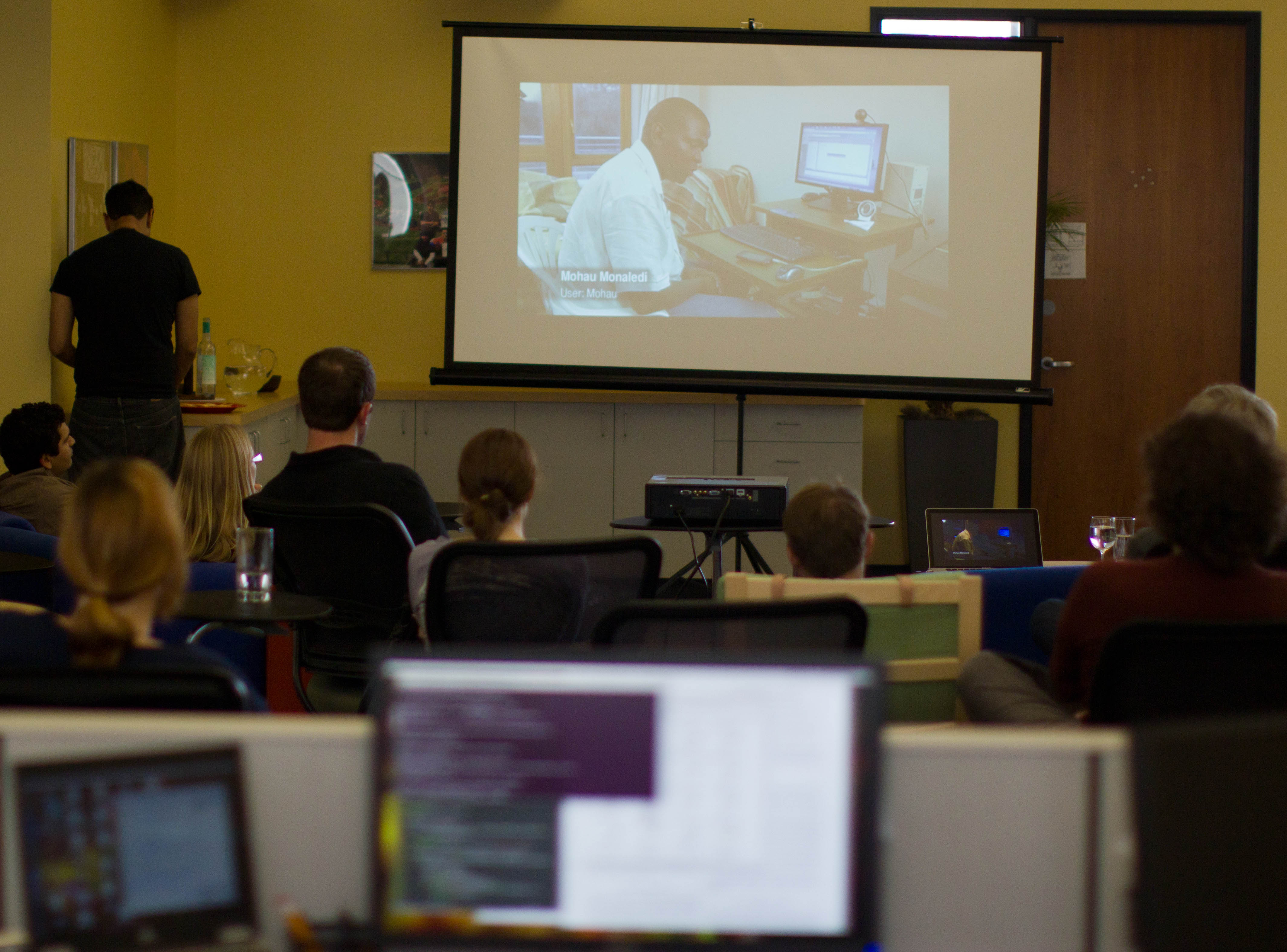 Images from the Collab Space at the Wikimedia foundation at the August 12, 2011 screening of the film 'People Are Knowledge'